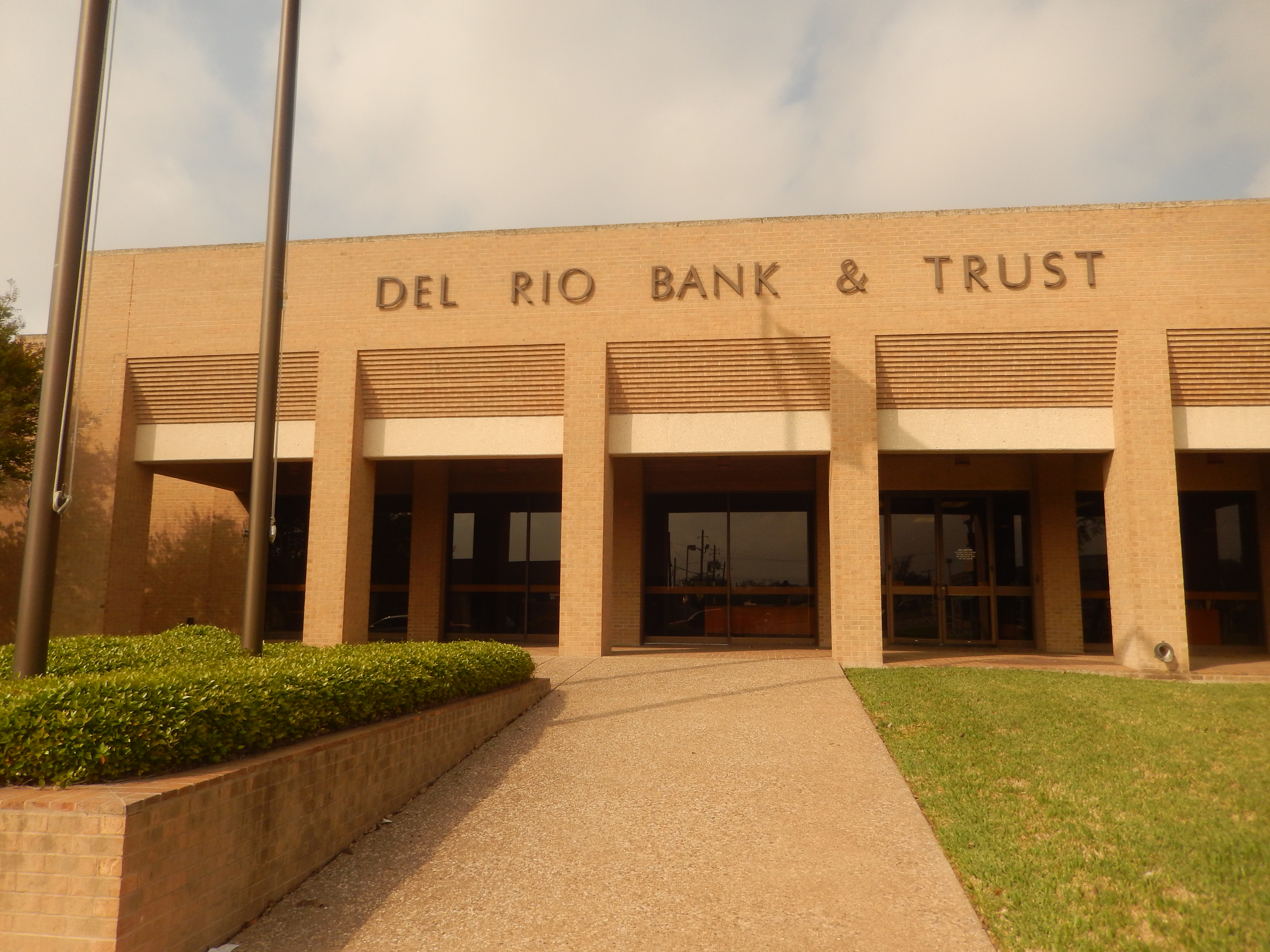 I took photo with Nikon camera of Del Rio Bank and Trust Co. in Del Rio, TX.